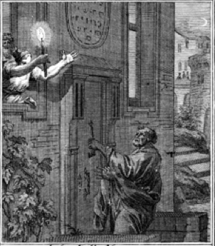 Woodcut of the scene from Acts 12, 1695.